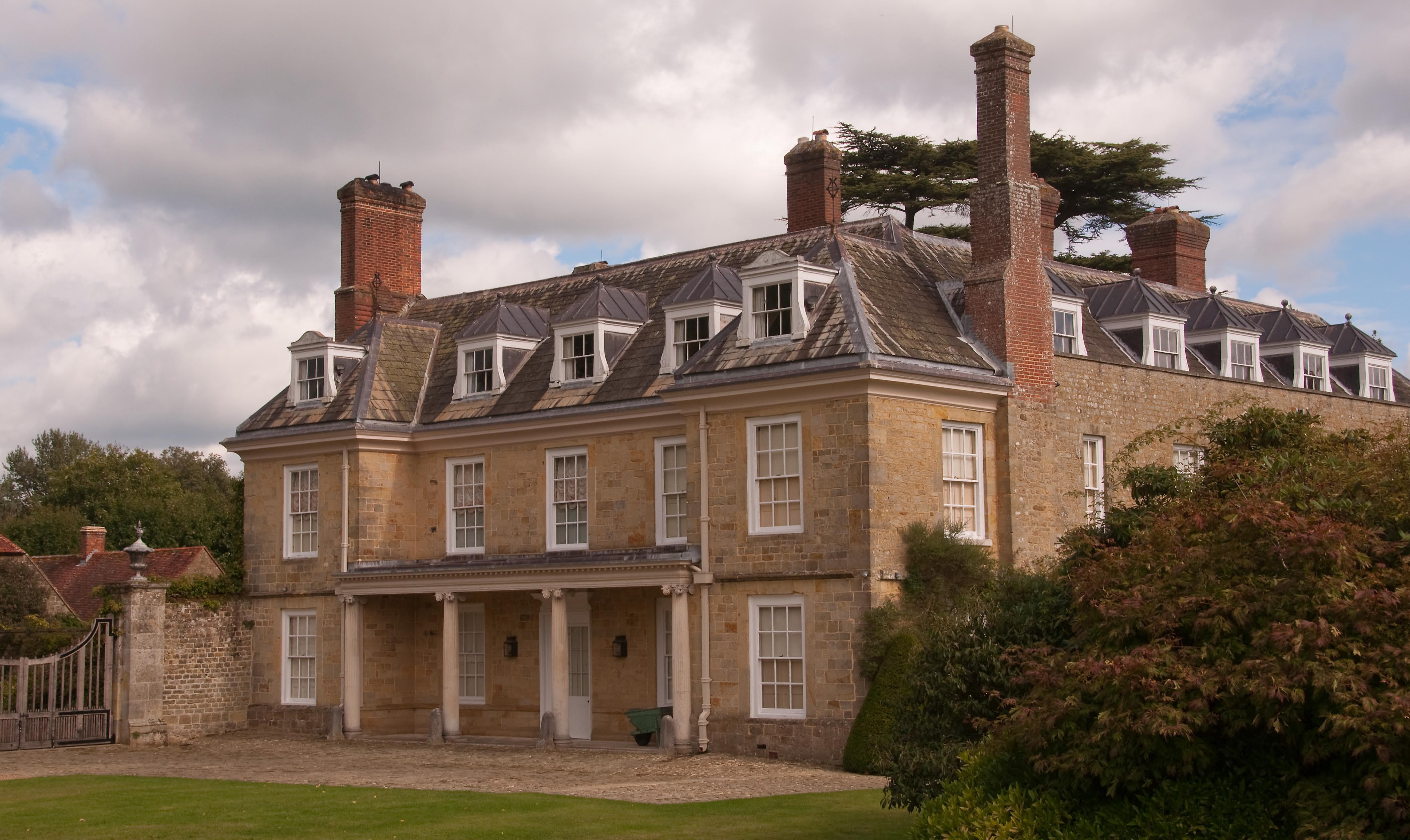 Woolbeding House seen looking Northeast with the Portico on the West Front. Seen from the south west.